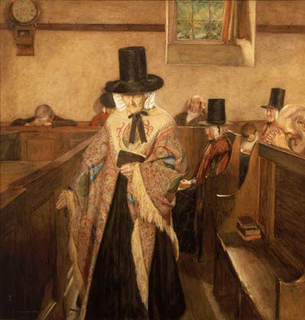 Interior of Salem Chapel in Cefncymerau, with its central figure of Siân Owen, dressed in traditional Welsh costume